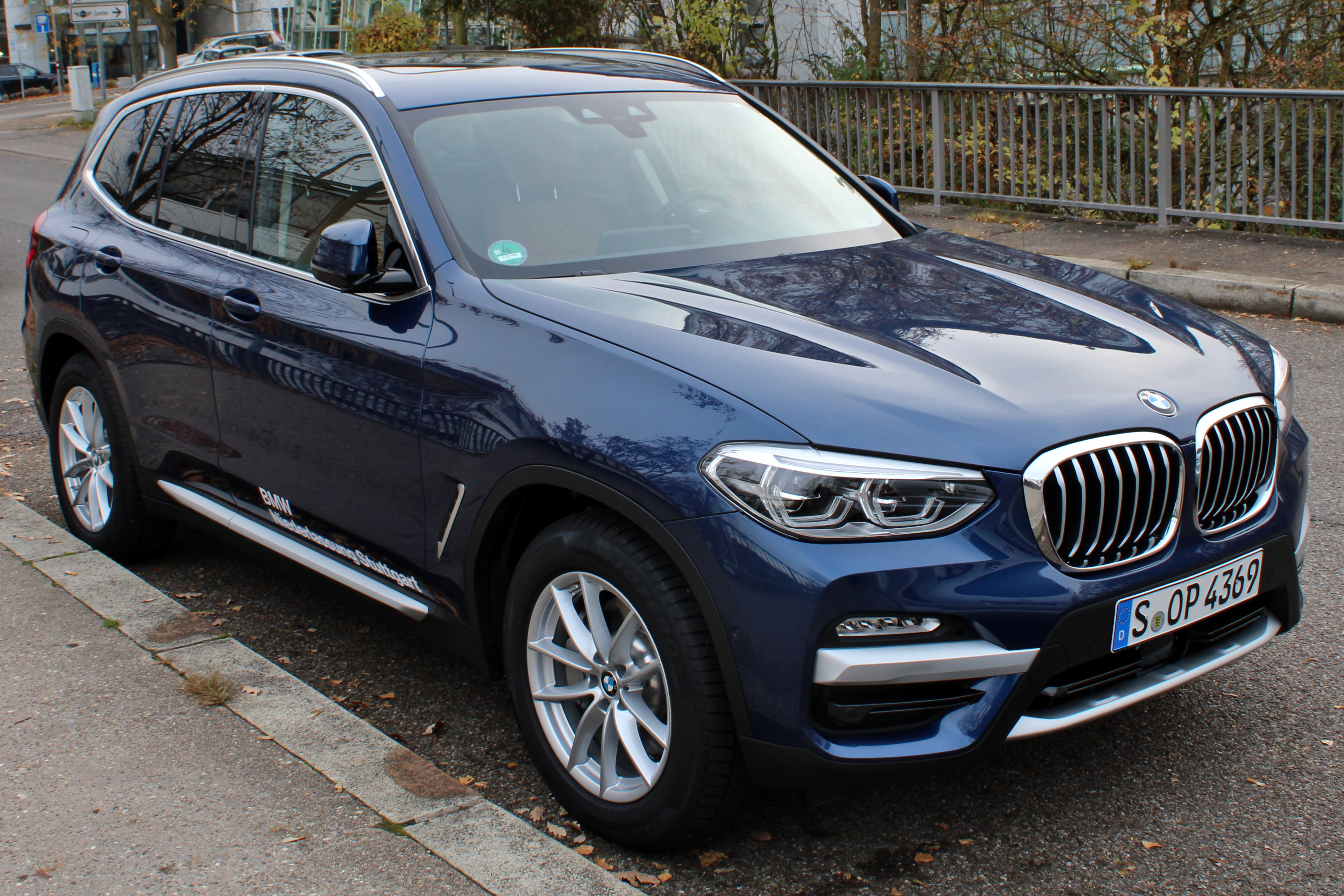 BMW X3 xDrive 30i in Stuttgart-Vaihingen